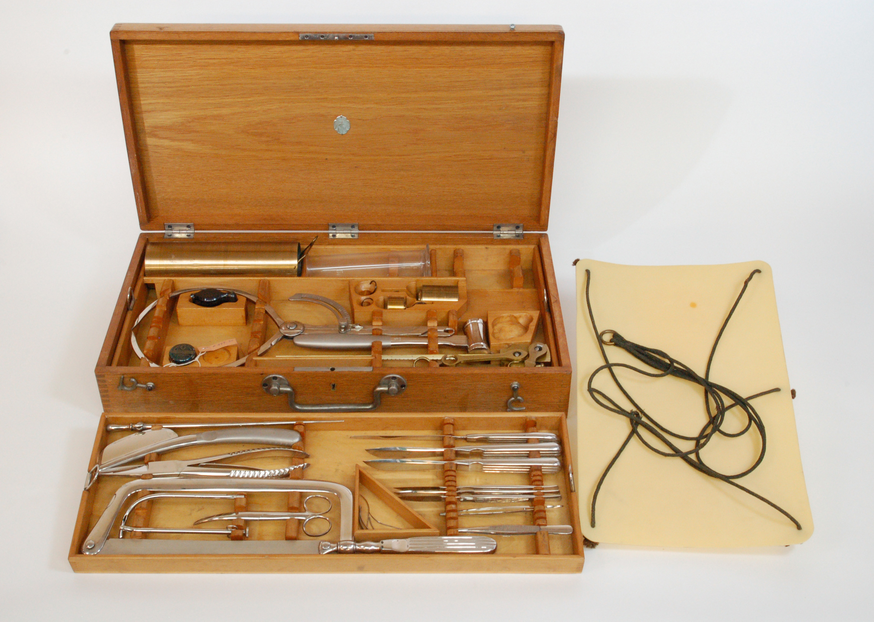 Autopsy set in wooden box with 2 pull out trays. Area beneath lower tray contains weighing platform for scale. Purchased from the Kny-Scheerer Company for $51.00 and received at the museum on July 13, 1906